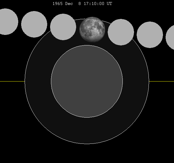 December 1965 lunar eclipse chart of moon's path through the earth's shadow. thumb